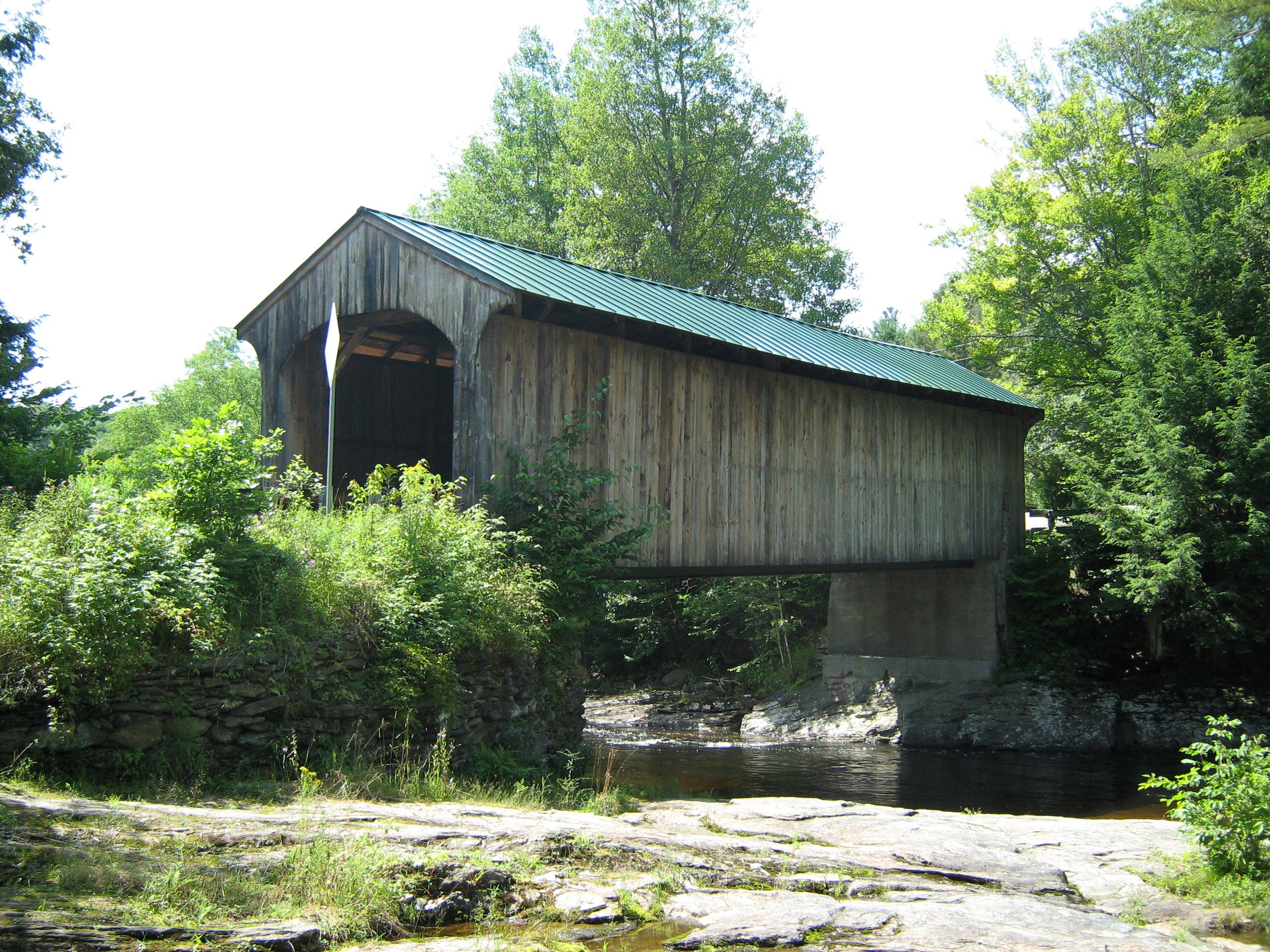 Montgomery (a/k/a Lower, Potter) Covered Bridge, Waterville, Vermont. Builder unknown, c1870. Queenpost, 70', spanning North Branch Lamoille River on Montgomery Bridge Road. Refurbished in 1998.